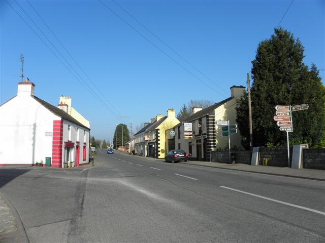 Bawnboy village, Templeport, County Cavan, Ireland, heading west.